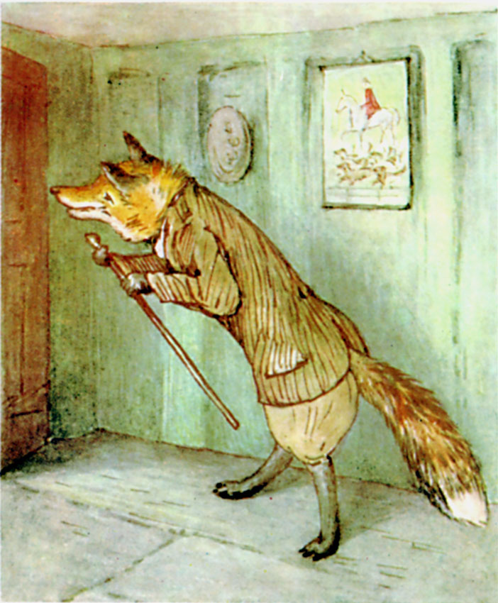 Title illustration of Mr. Tod from The Tale of Mr. Tod